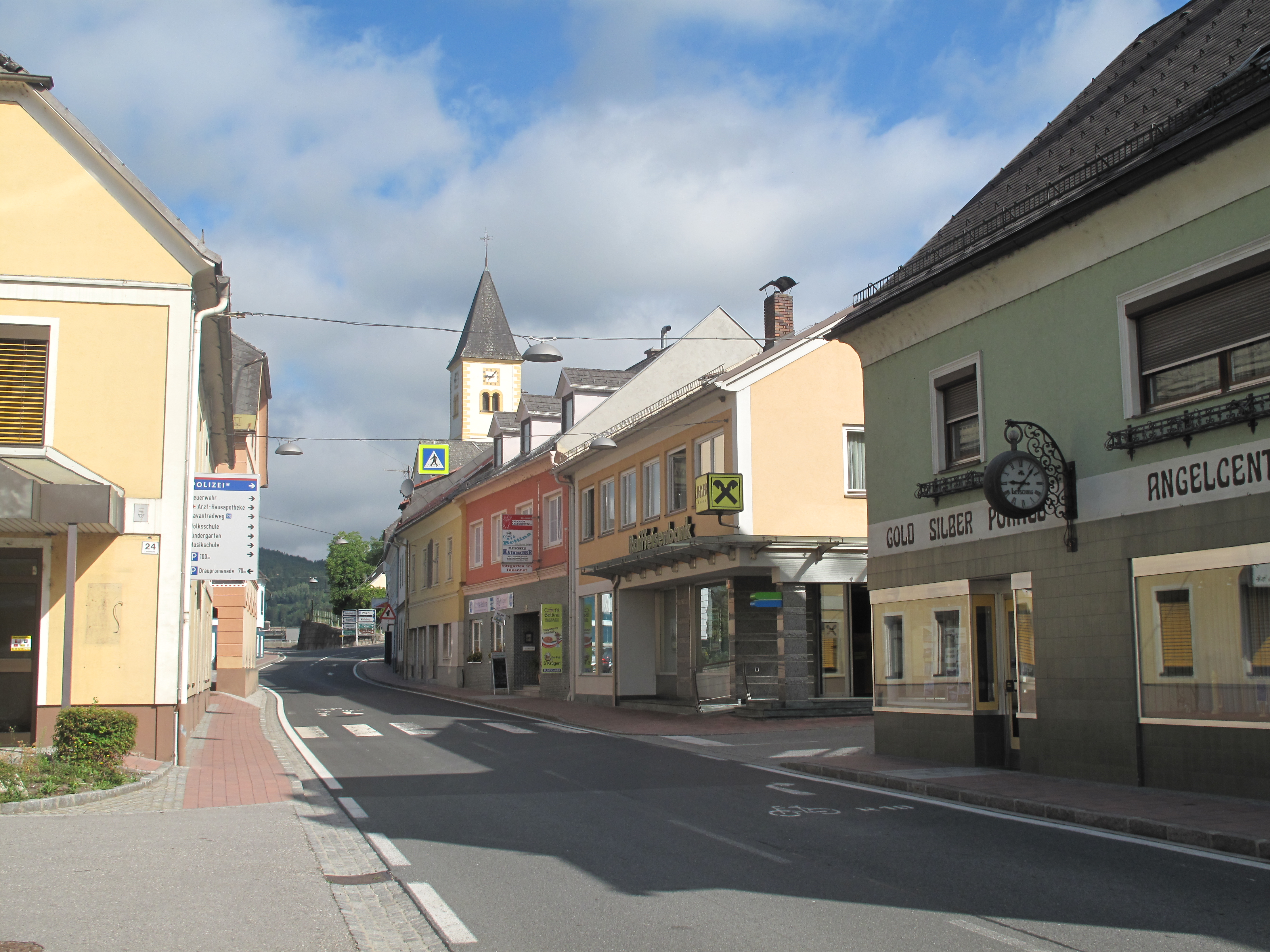 Lavamünd, street with church tower